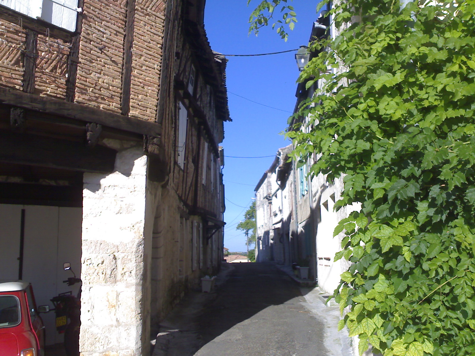 Beautiful street.